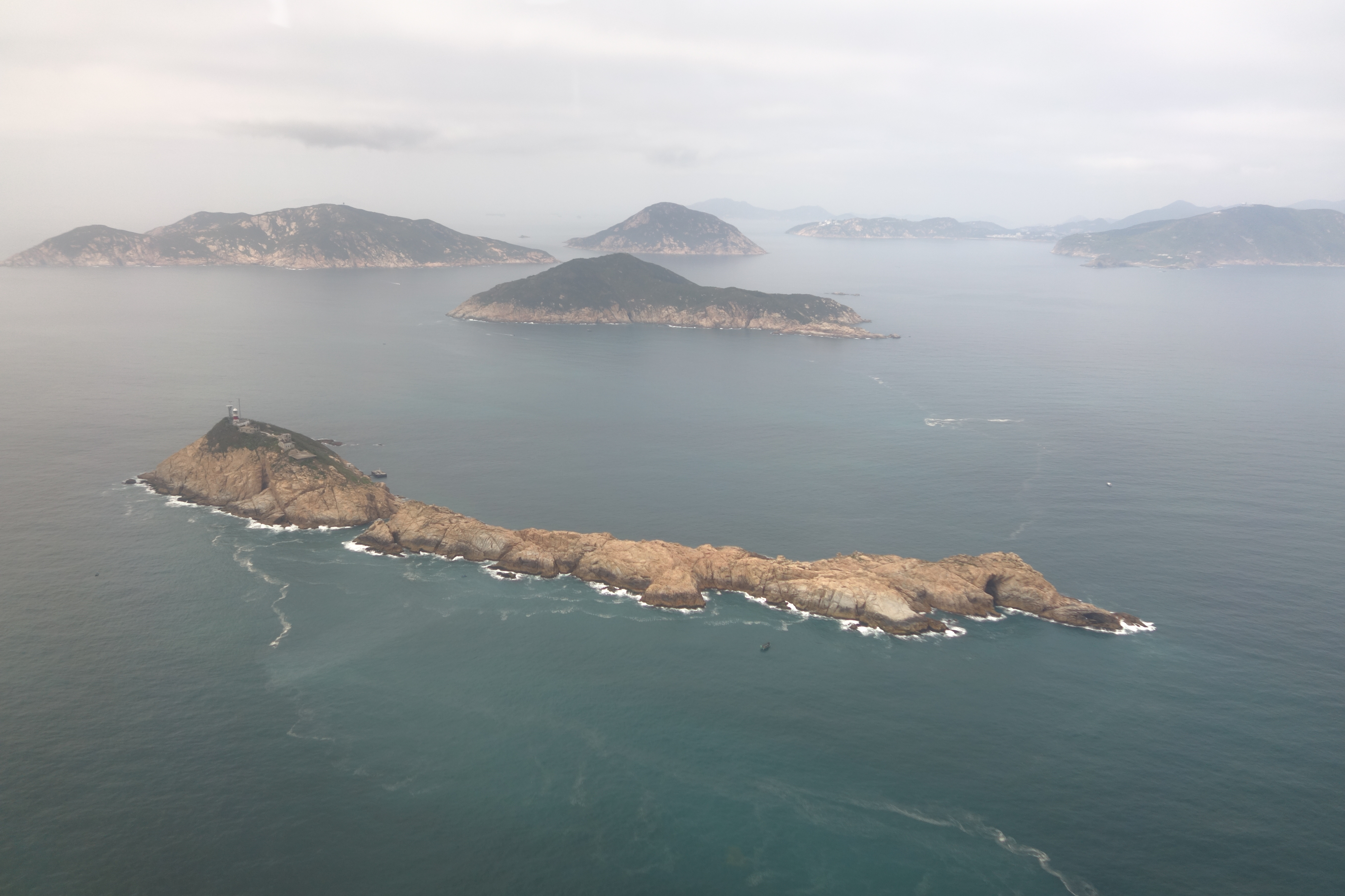 Aerial view of Waglan Island, Sung Kong, Lo Chau and Po Toi Island of Po Toi Islands off the Southeastern coast of Hong Kong Island